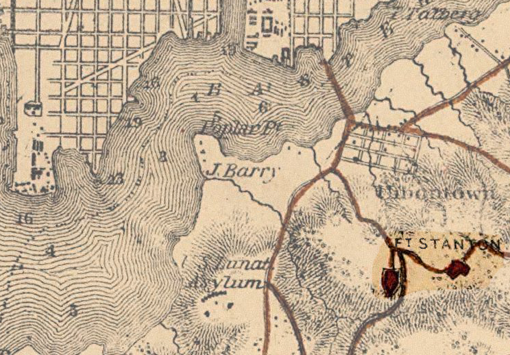 Inset of American Civil War defenses of Washington, D.C. in 1865. US Government document, War Department (1865).